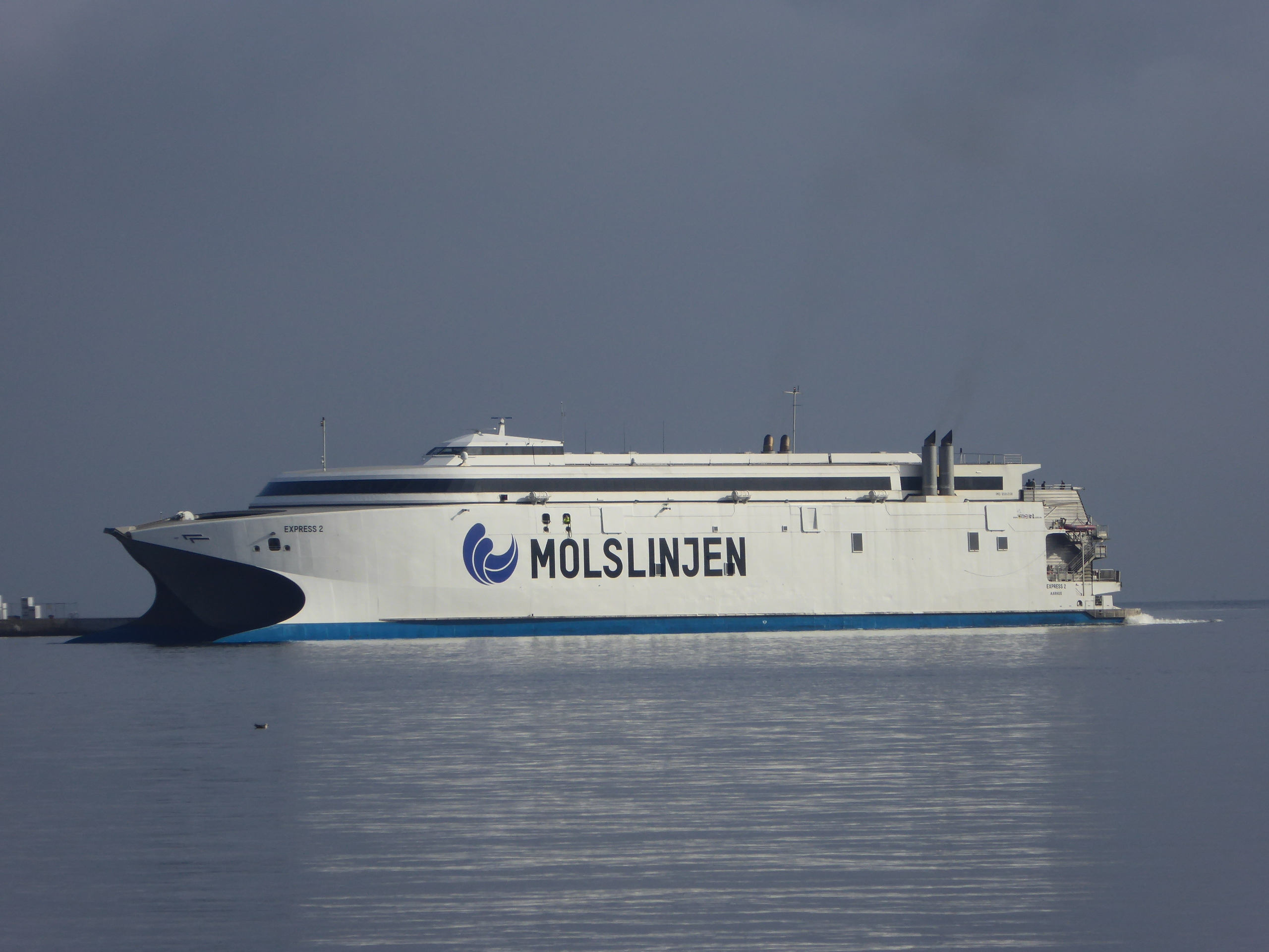 The ferry Express 2 (former KatExpress 2) arriving in the port of Aarhus in Denmark.